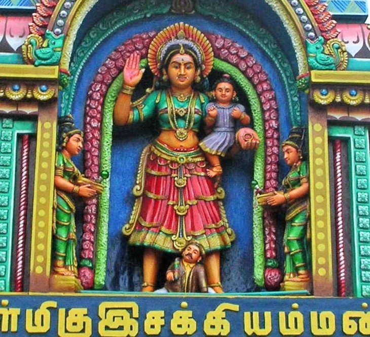 Own work Mohonu 06:52, 2 August 2007 (UTC)